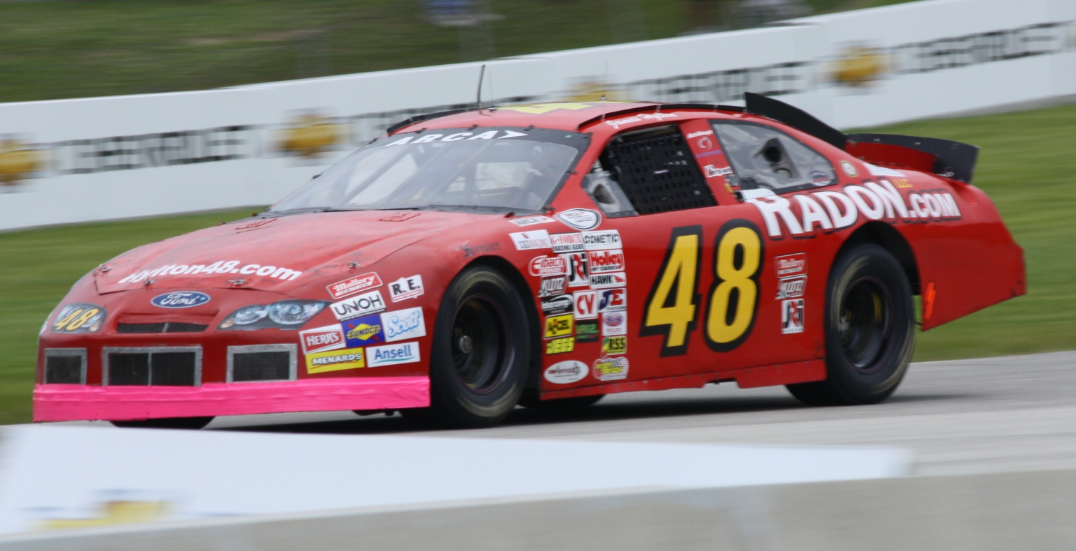 The ARCA Racing Series car of James Hylton at the 2013 Scott 160 race at Road America.